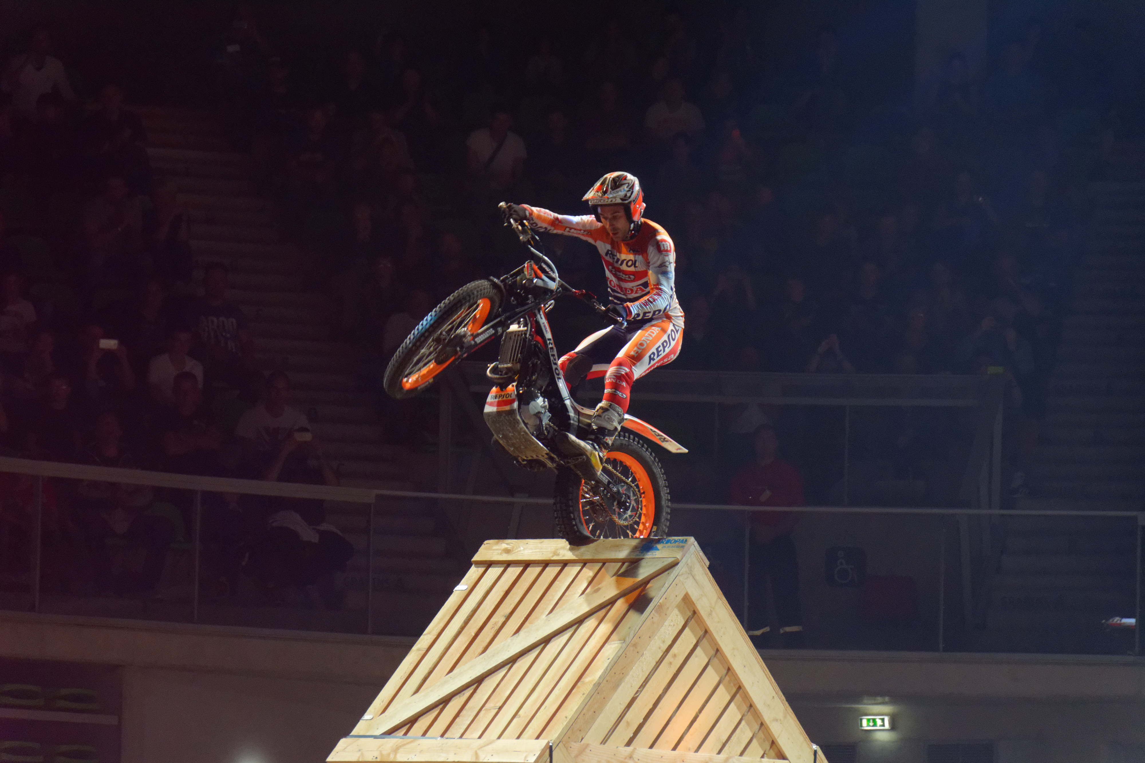 Personality rights warningAlthough this work is freely licensed or in the public domain, the person(s) shown may have rights that legally restrict certain re-uses unless those depicted consent to such uses. In these cases, a model release or other evidence of consent could protect you from infringement claims.